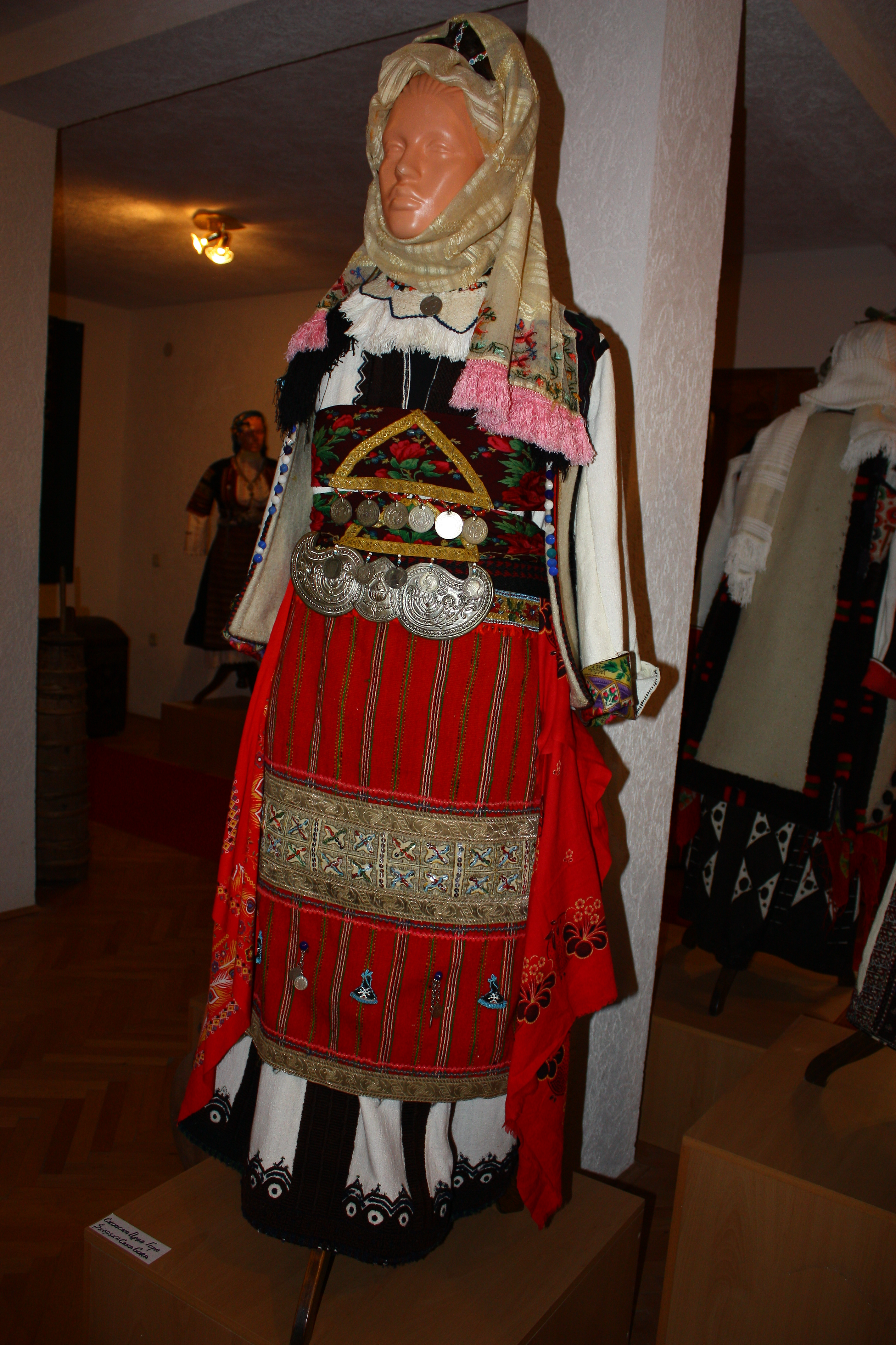 Ethnological Museum in Podmočani, Macedonia